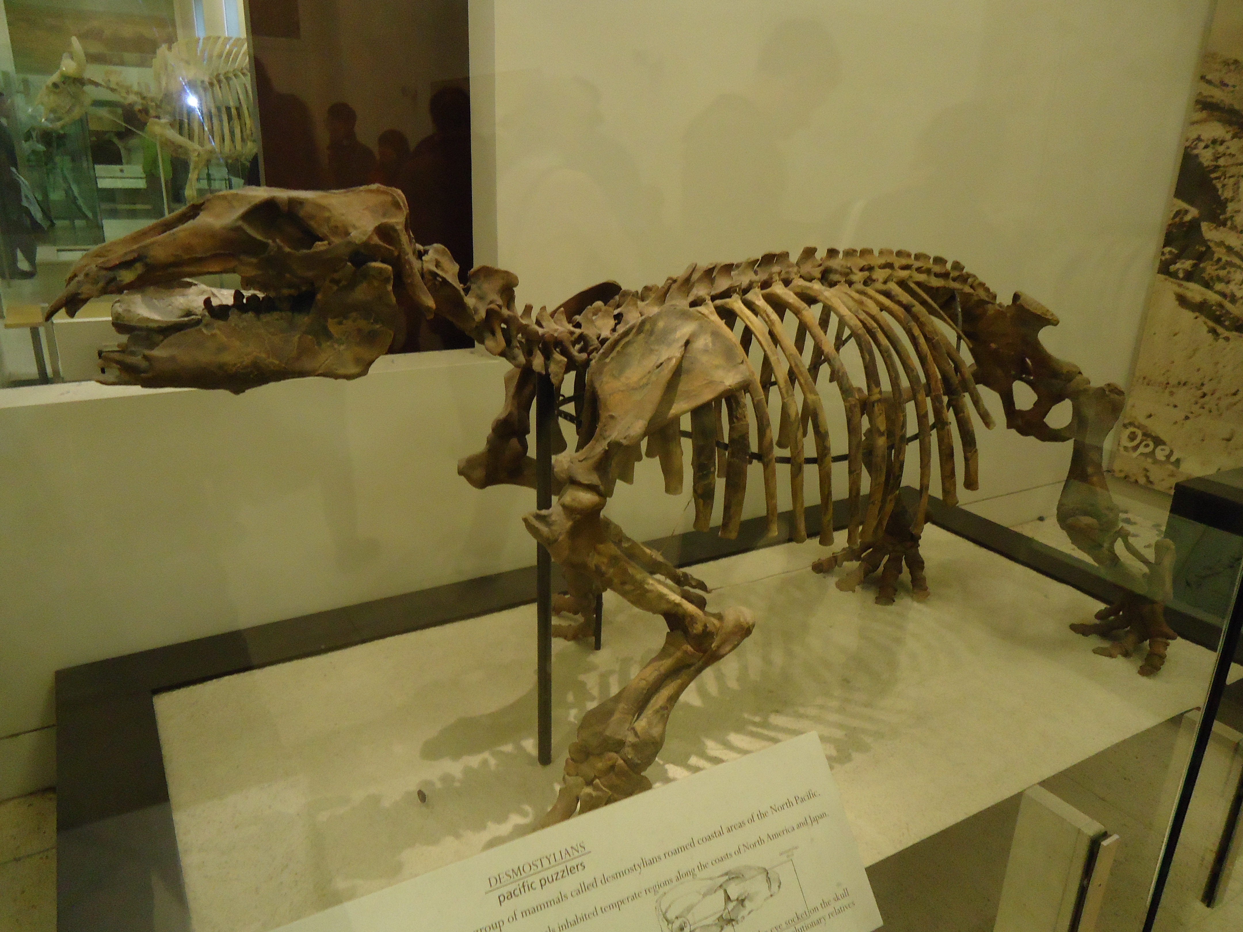 Palaeoparadoxia tabatai, American Museum of Natural History